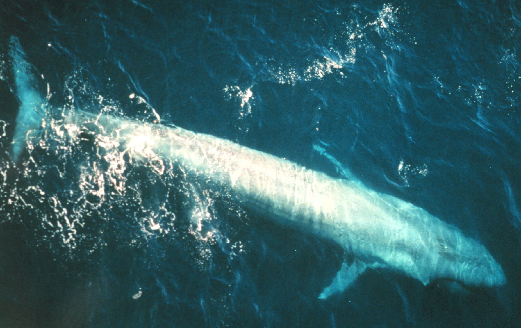 Adult blue whale (Balaenoptera musculus) from the eastern Pacific Ocean.